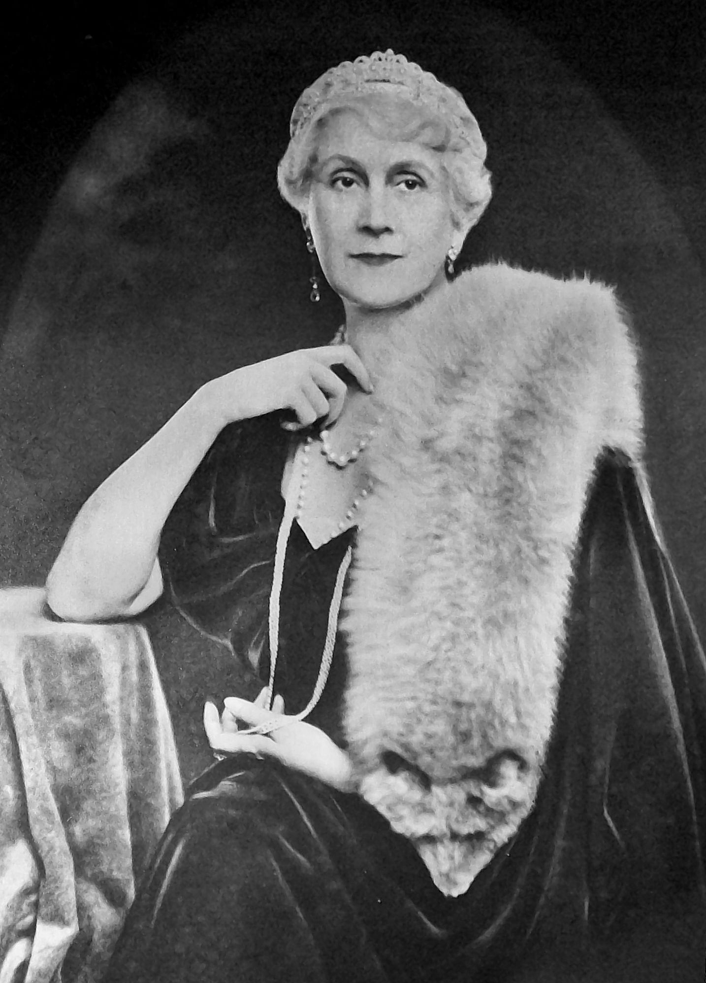 Magdolna Purgly de Jószáshely (born 10 June 1881 in Kürtös, Hungary; died 8 January 1959 in Estoril, Portugal) was the wife of Admiral Miklós Horthy.